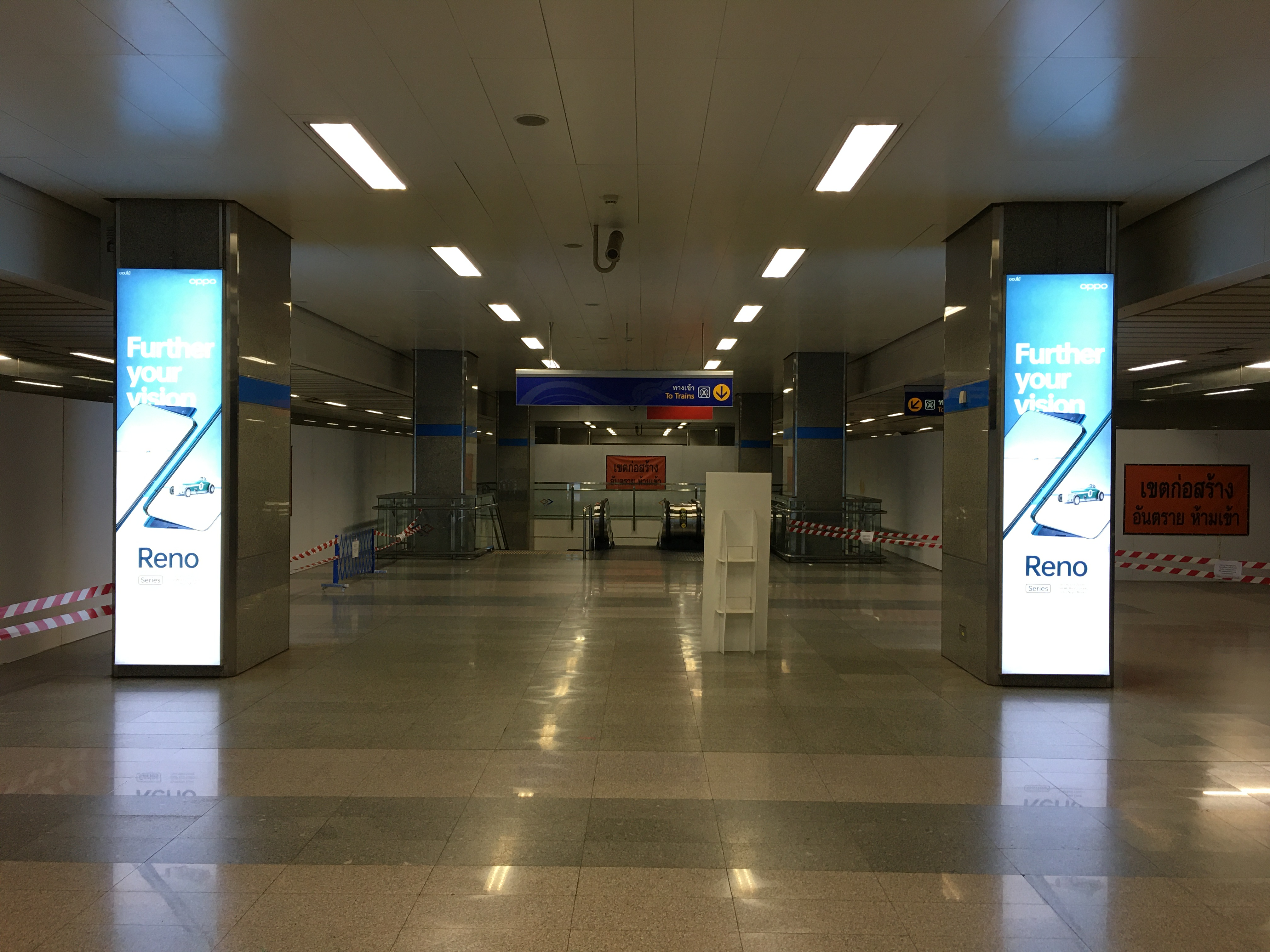 The upper platform of Thailand Cultural Centre MRT Station closes for the consturction of the MRT Orange Line Eastern section (Thailand Cultural Centre - Min Buri - Suwinthawong).